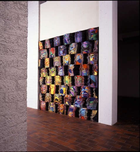 This is a scan of a slide of an artwork by Dutch visual artist Sibyl Heijnen. The title of the work is "The two sides of the same coin 1" and it was created in 1990. This image shows the artwork's colorful side. In 1992, it won the Excellence Prize in the Third International Textile Competition in Kyoto, Japan. The image was uploaded to Wikipedia with permission from the artist.